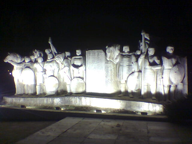 Part of the monument of Khan Asparuh - Isperih in Isperih